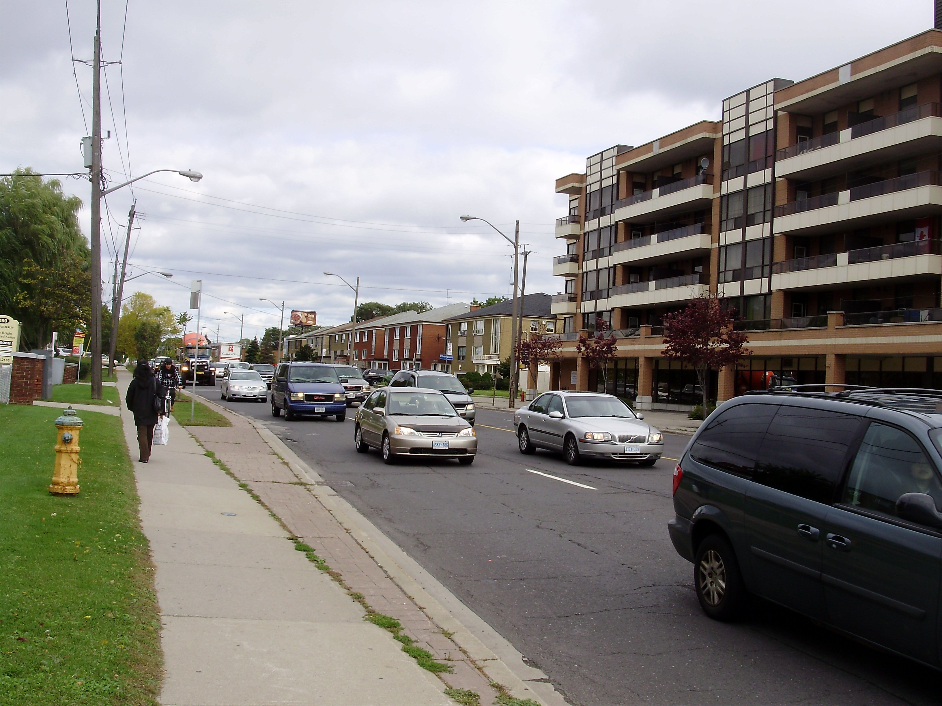 Looking east along Wilson Avenue from Faywood in the neighbourhood of Clanton Park in North York, Ontario, Canada.